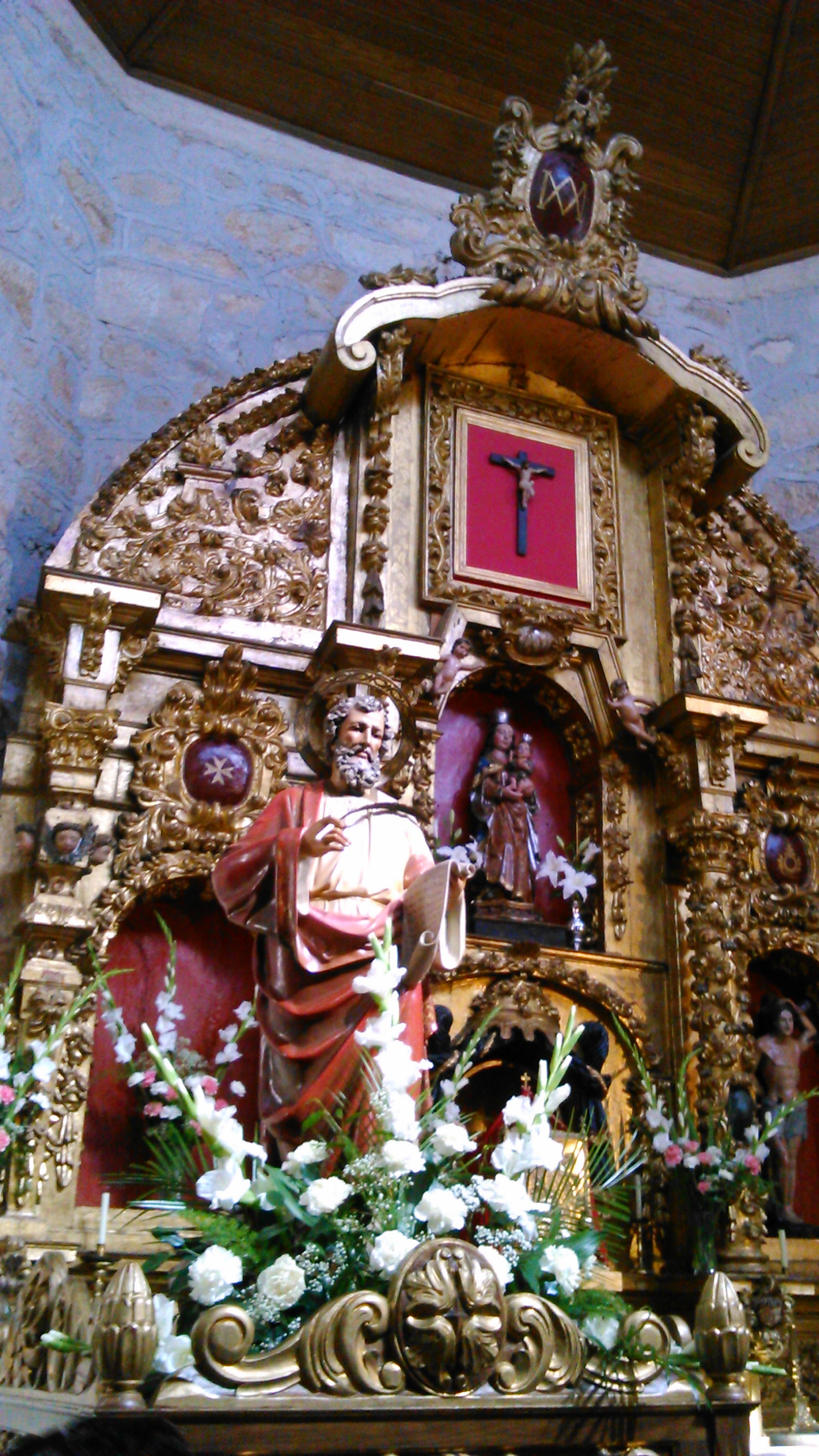 San Lucas Evangelista - El Torno